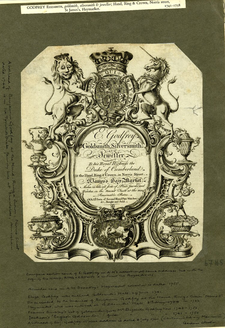 Trade card of Elizabeth Godfrey, goldsmith, c. 1741-58. See info at British Museum